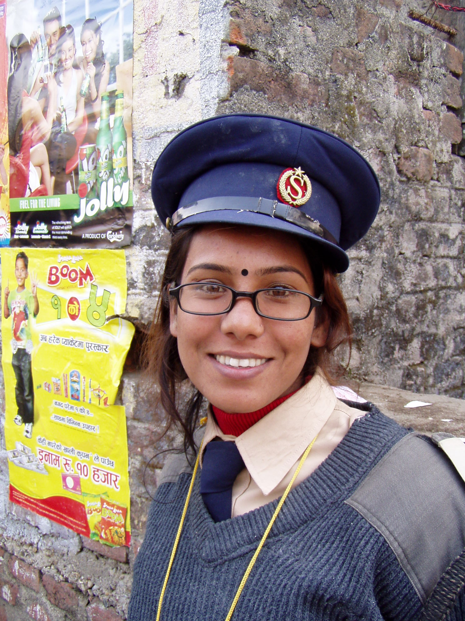 Female security guard in Narayangarh, District Chitwan, Nepal